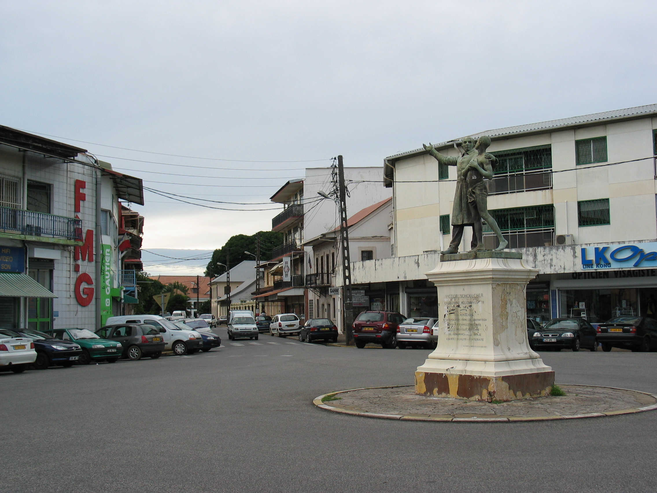 A view of Place Victor-Schoelcher in Cayenne.